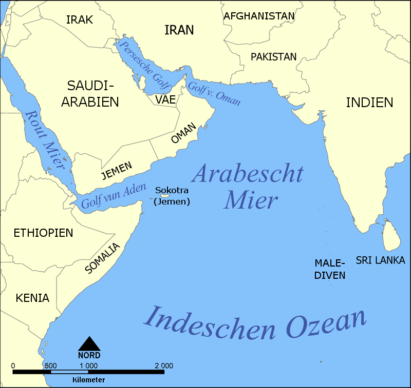 Map of the Arabian Sea in Luxembourgish.